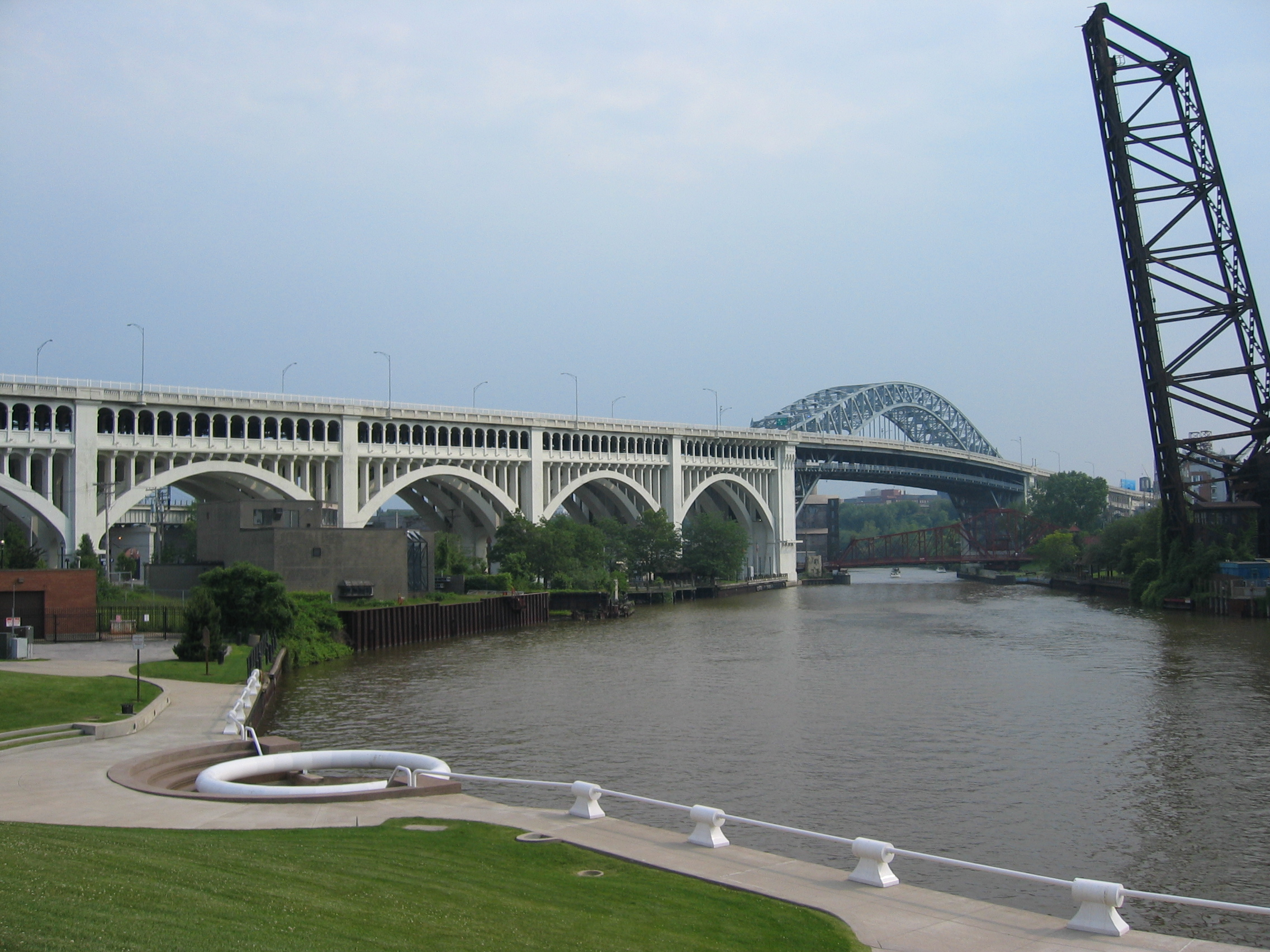 Settlers Landing along the Cuyahoga River in Cleveland's Flats